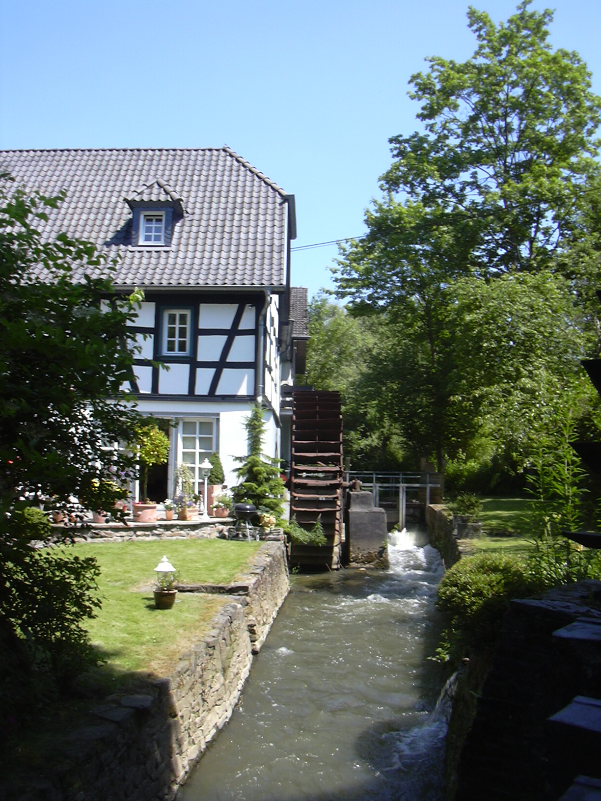 Watermill, Waldbreitbach, Westerwald/Germany